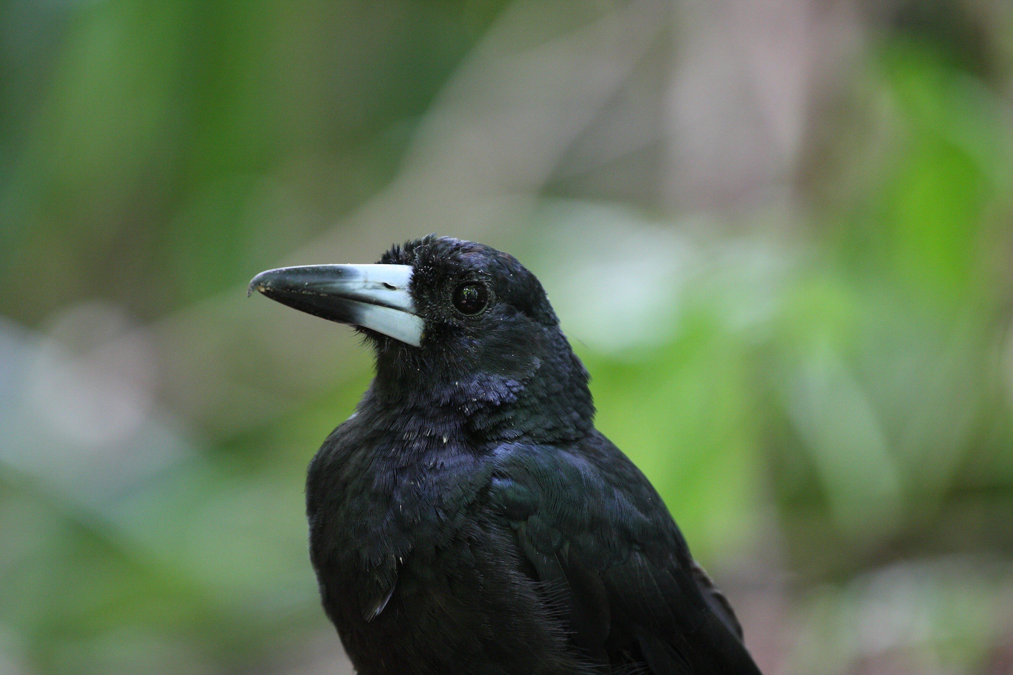 Black butcherbird (Cracticus quoyi). Photo by Magnus Kjaergaard.